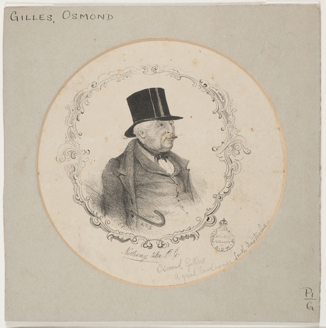 Portrait of Osmond Gilles, landowner, 1849, by S.T. Gill, from lithograph, P1/627